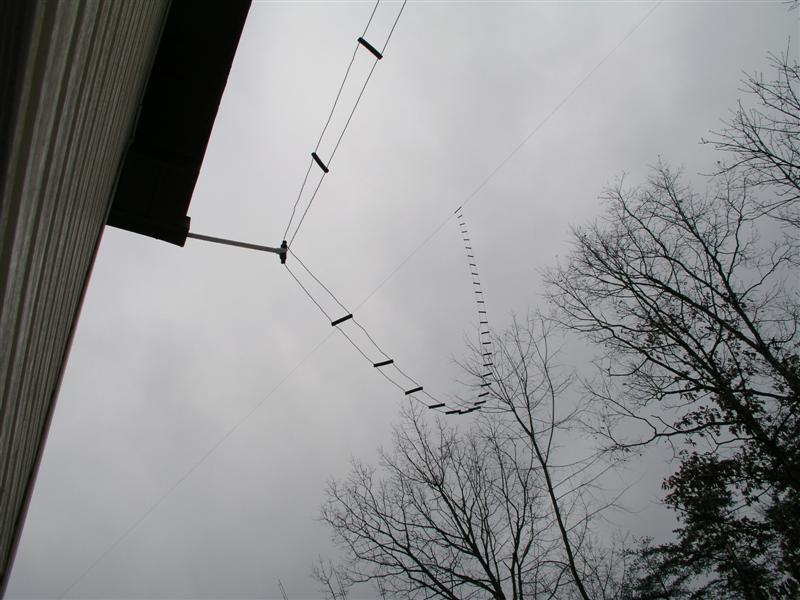 Amateur station W3NP's home made transmission line (ladder line) and antenna. It consists of a parallel transmission line made of wire held a constant distance apart with homemade insulating spacers, that feeds a long wire dipole antenna